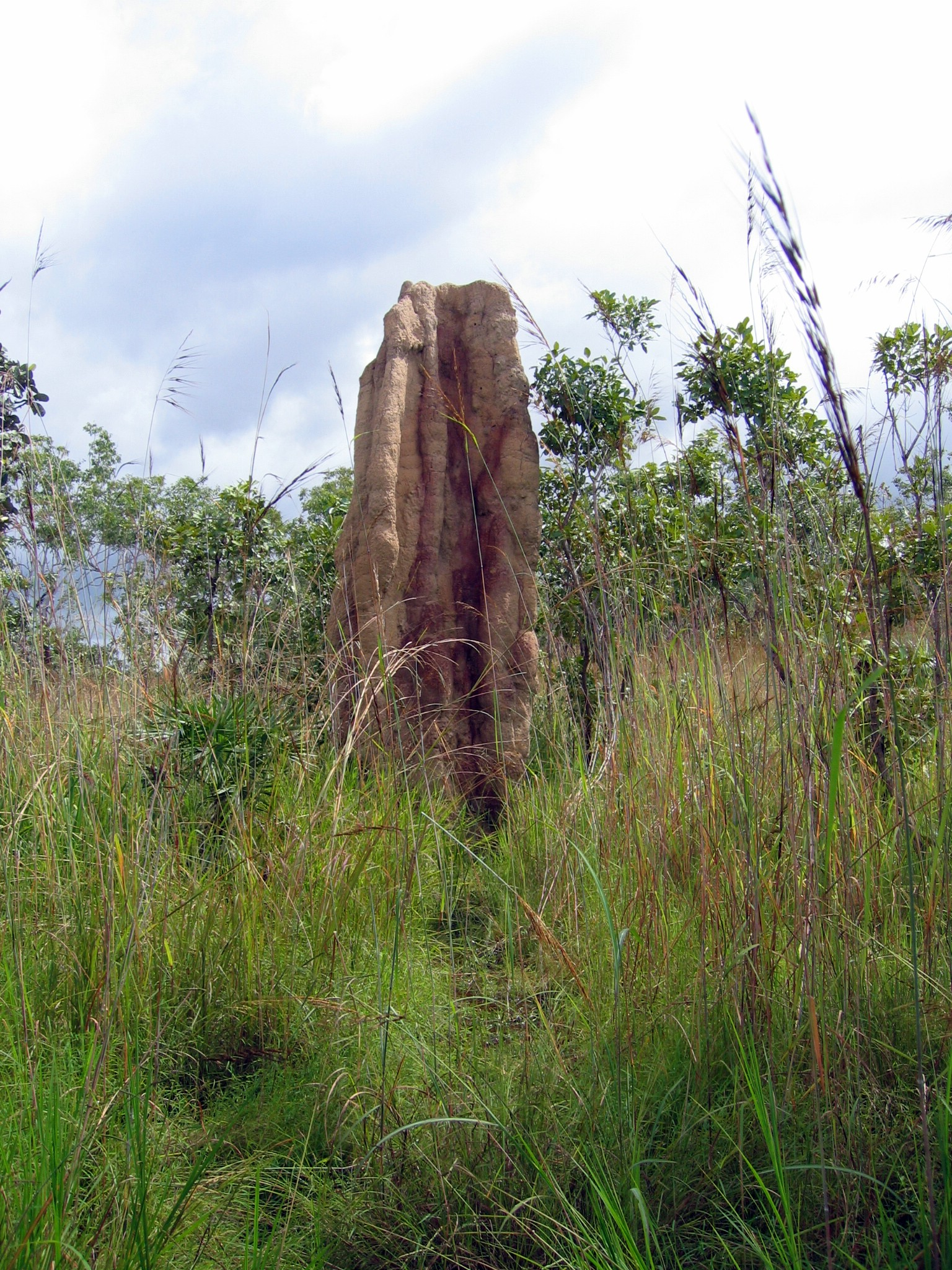 Litchfield National Park, NT, Australia.Darwin - Litchfield NP 003